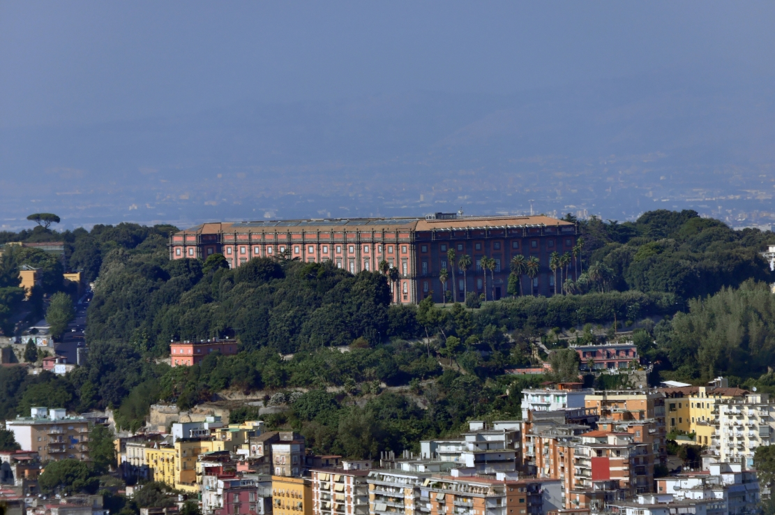 the Royal Palace in the Park of Capodimonte – Naples 2012